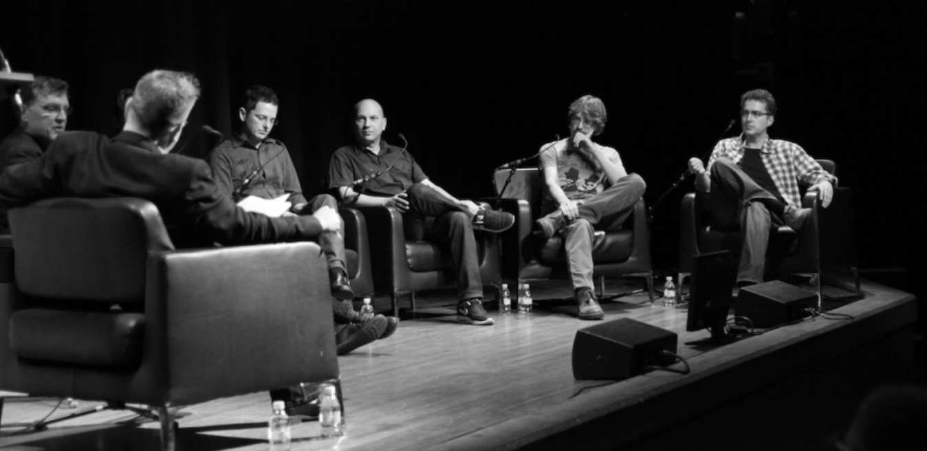 Marty O'Donnell, John Broomhall, Jason Graves, Jesper Kyd and James Hannigan in 2013.